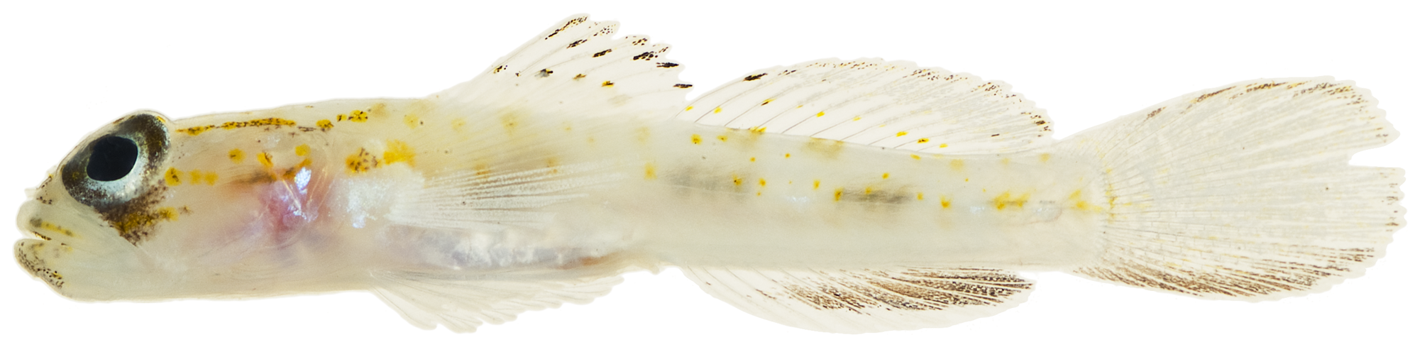 Psilotris boehlkei Greenfield, 1993—yellowspot goby, 26.5 mm SL, adult. Photo by JT Williams.